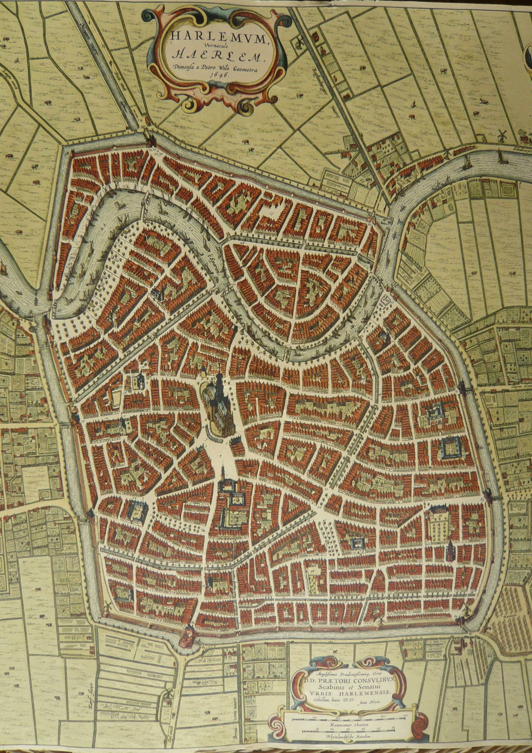 In 1642 the city council commissioned the surveyors Hendrik Duijndam and Peter Wils to design a new expansion on the north side of the city. Leiden and Amsterdam had expanded their borders in a similar fashion. The designers based their ideas on an idealised 'Italian' view of the ideal city. Salomon de Bray contributed his own plan, convincing the council that the northern expansion was just one step in realising a star-shaped ideal city that would surround the existing city walls in a star pattern with 16 bastions, with the cathedral in the center. Salomon de Bray's plan was partially executed on the North side, and his zigzag canals around the bastions still exist today. This map shows the situation before construction began.